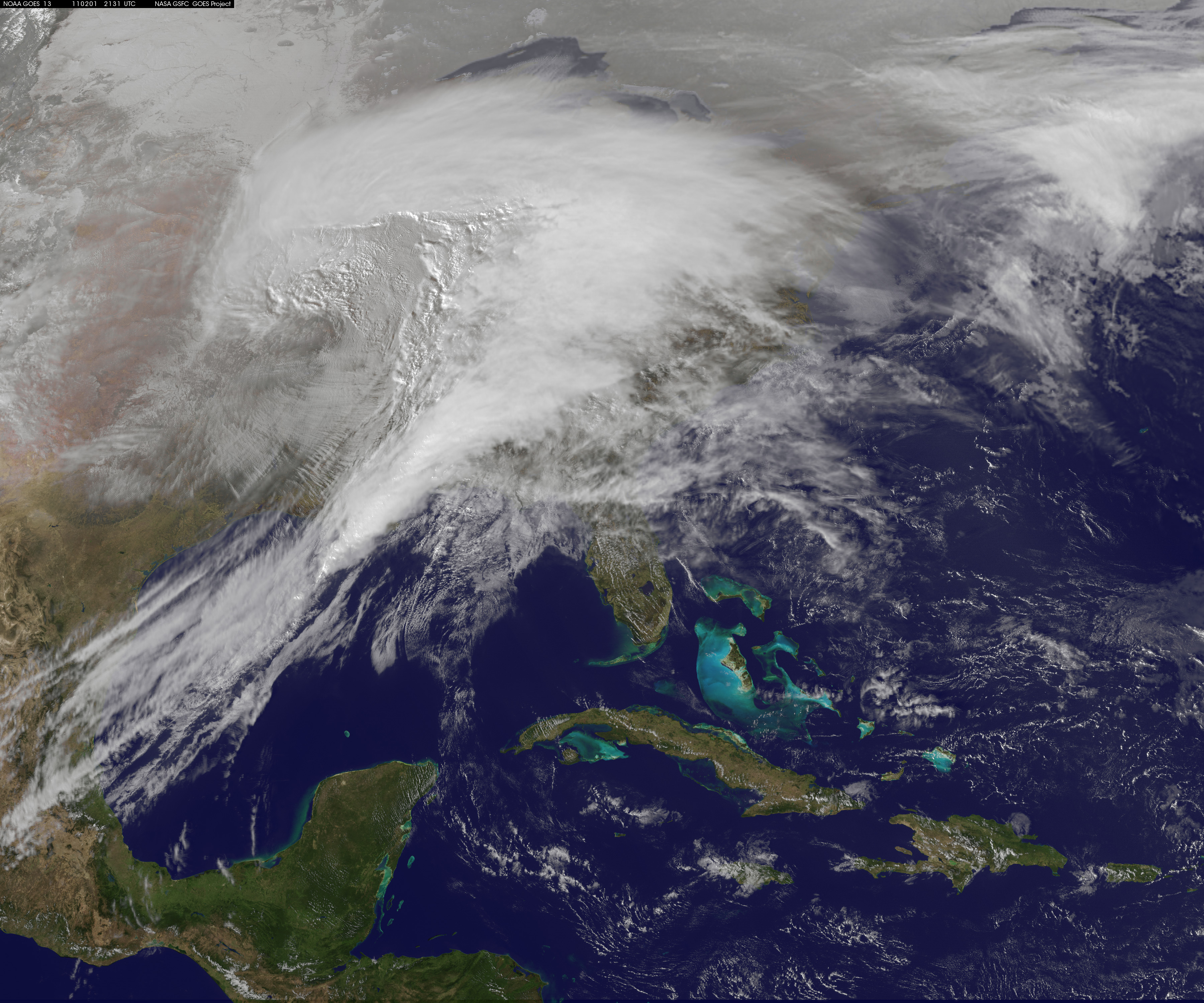 In a winter marked by several crippling storms, the storm of February 1–2, 2011, stands out. Heavy snow, ice, freezing rain, and frigid wind battered about two thirds of the United States, making it “a winter storm of historic proportions,” said the National Weather Service. This animation—made with images from the NOAA-NASA GOES 13 satellite—shows the giant storm developing and moving across the country between January 31 and February 2. This image, a still taken from the animation, shows the storm at 2131 UTC on February 1. In the image, the storm measures about 2,000 kilometers (1,240 miles) from west to east. The storm formed when cold Arctic air pushed south from Canada while moist air streamed north from the Gulf of the Mexico. The animation shows clouds building over New Mexico and Texas early in the day. As the system develops and moves northeast, the storm grows and becomes more organized. By the end of February 1, the storm was a sprawling comma that extended from the Midwest to New England. By 1300 UTC on February 2, the National Weather Service reported that 21 states from New Mexico to New Hampshire had received at least 5 inches (13 centimeters) of snow. Wisconsin, Illinois, Missouri, and Oklahoma declared states of emergency. According to news reports, one in three Americans were affected by the storm. The monster storm brought record snowfall to many areas, including Chicago, perhaps the hardest hit population center. The city received 20.2 inches of snow, a record for February and the third biggest snowstorm for any date in Chicago. The record was set at 23 inches (58.4 cm) on January 26–27, 1967. The storm left a solid swath of snow from New Mexico to New England.–Caption credit: Holli Riebeek (time converted to UTC)